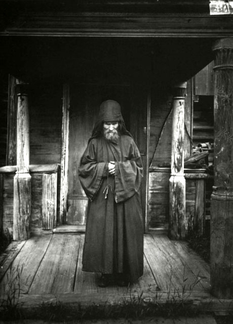 Russian Monk-Ascetic, 1897 Flickr data on 2011-08-13 Tags: Monk, Ascetic, 1897 License: CC BY-SA 2.0 User: paukrus Ruslan